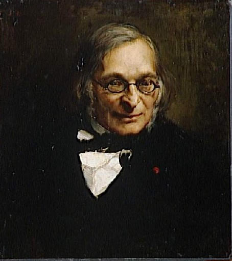 Portrait of French philosopher Adolphe Franck (1809-1893) by Jules Bastien-Lepage. Musée d'Orsay, Paris.